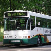 Volvo chassis bus?